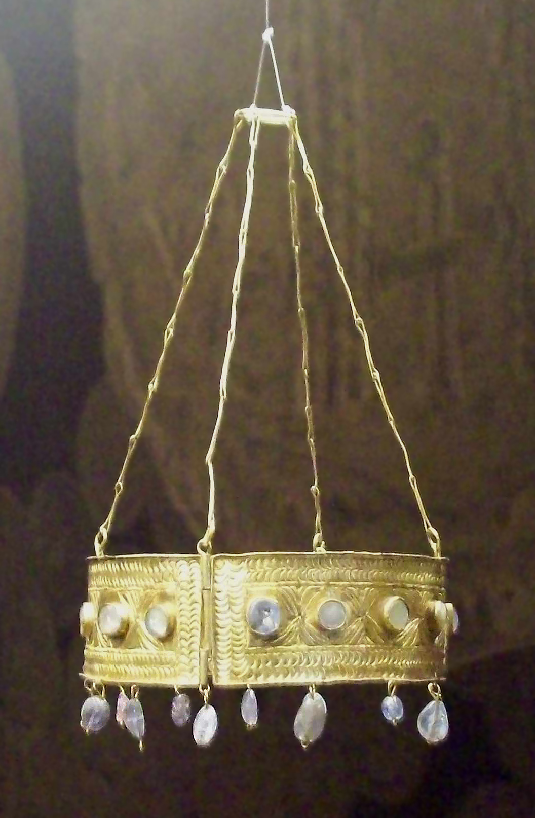 Visigothic votive crown. Made of gold, precious stones and nacre in the 7th century. It's part of the so-called Treasure of Guarrazar.